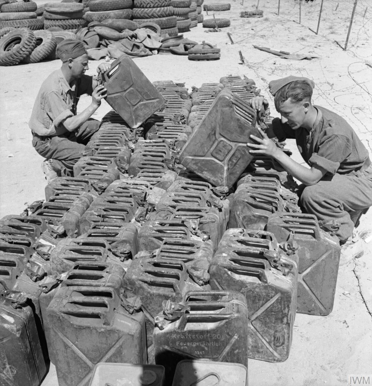 The British Army in North Africa 1942 Salvaged German petrol cans or 'jerricans' being inspected at a depot in the Western Desert, 21 April 1942.